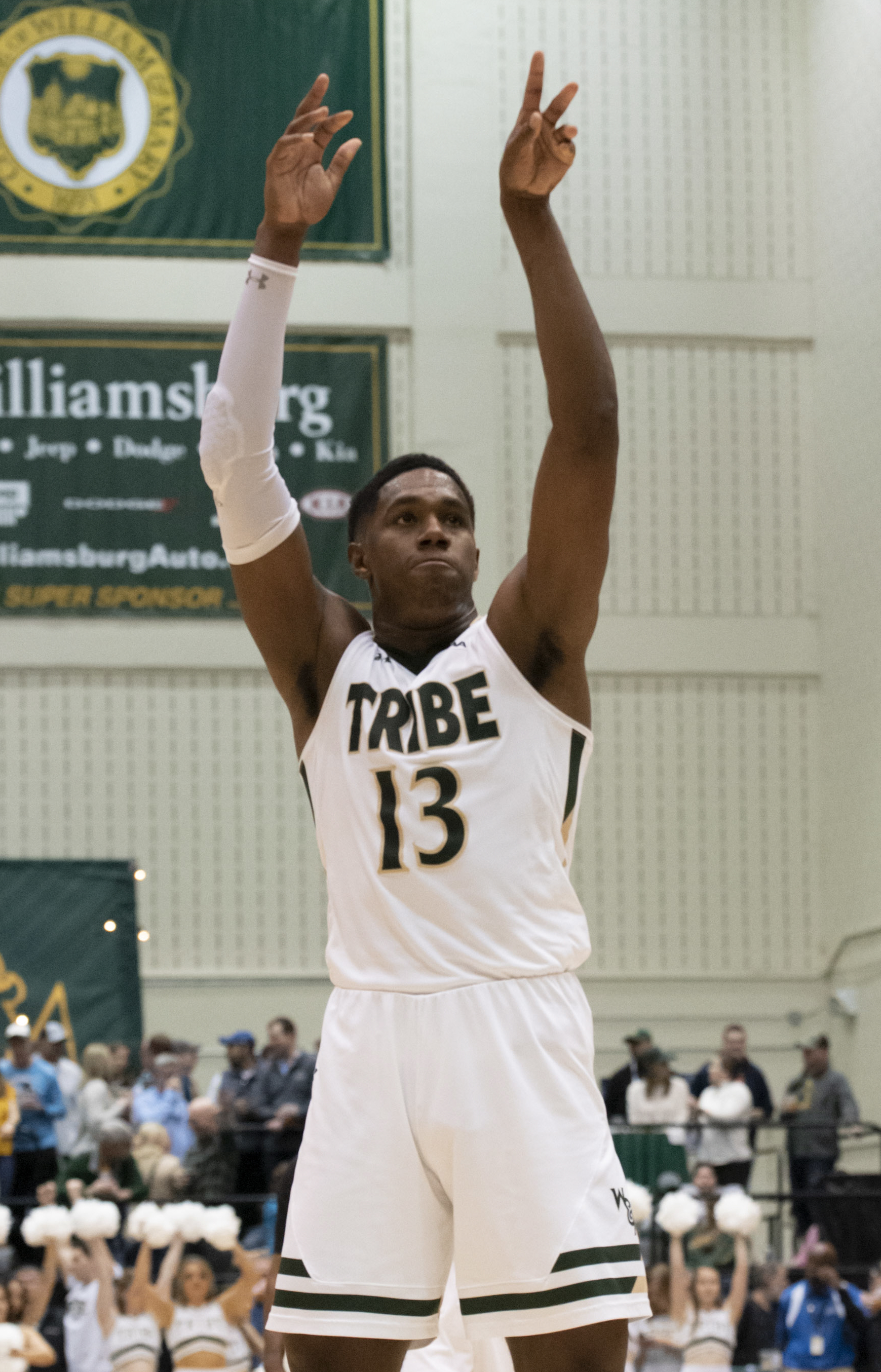 Nathan Knight with William & Mary in February 2020